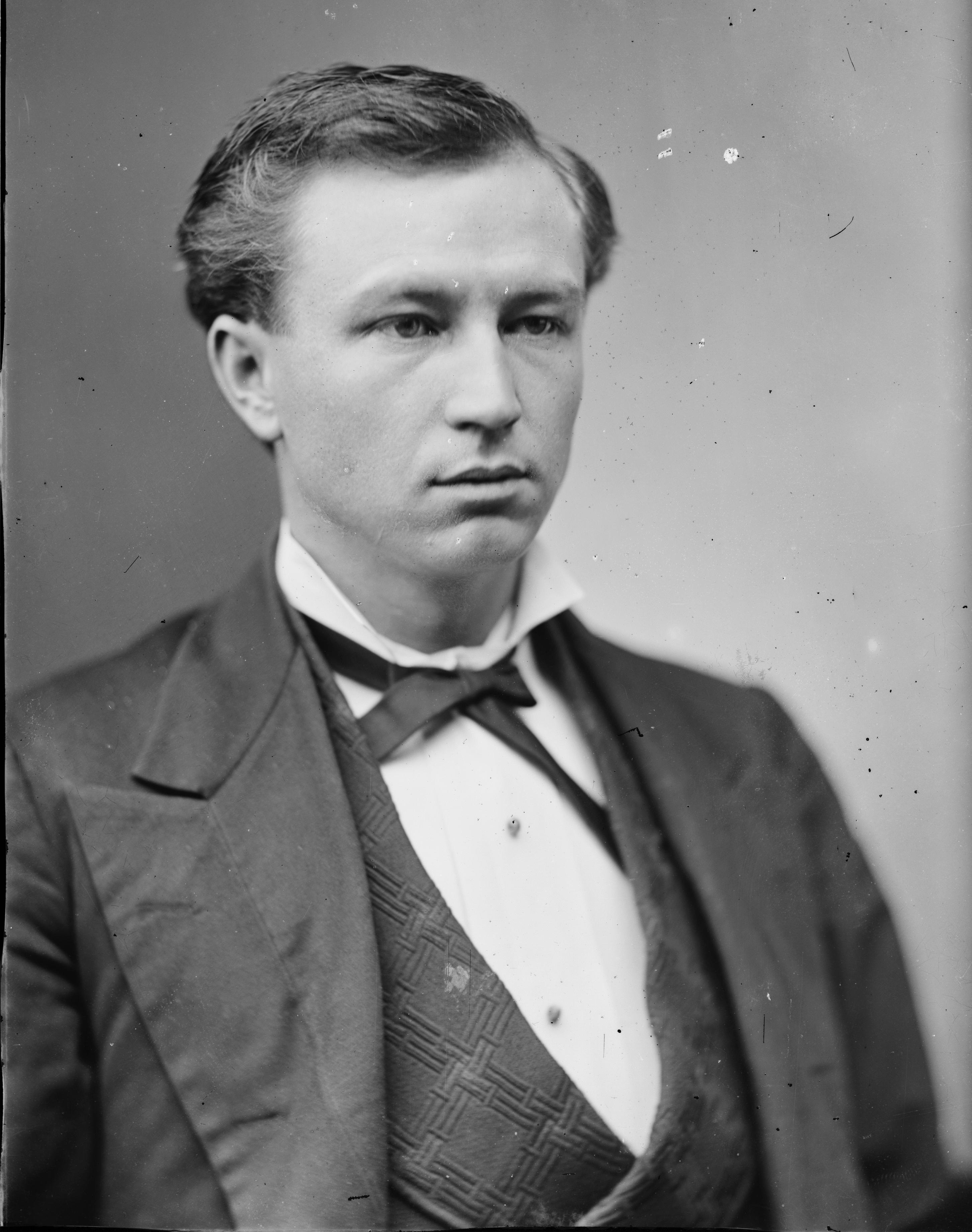 John E. Kenna. Library of Congress description: "J.E. Kenna, M.C. W.VA. In Confederate Army in 1864, wounded - 1864, surrendered at Shreveport, La.".